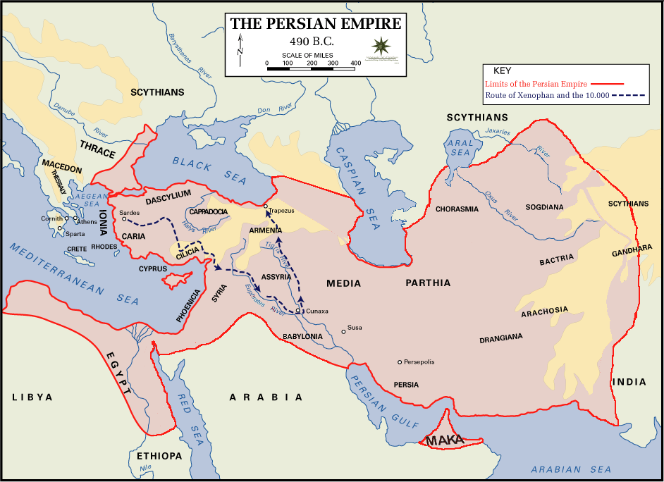 Persian Empire, 490 BC, showing route of Cyrus the Younger, Xenophon and the 10.000 Legend: ━━━ Route of Xenophon and the 10.000 ━━━ Limits of the Persian Empire. Expansion of Empire. ?